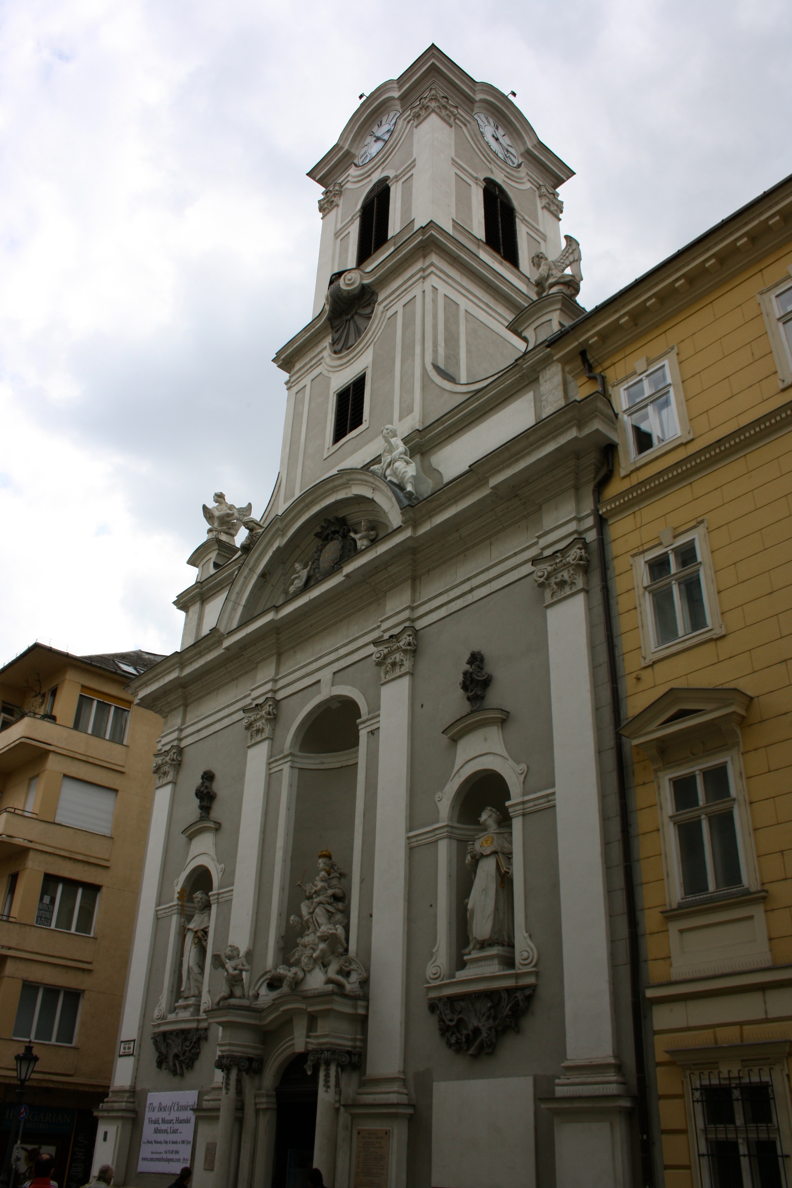 Saint Michael's Church, Budapest.